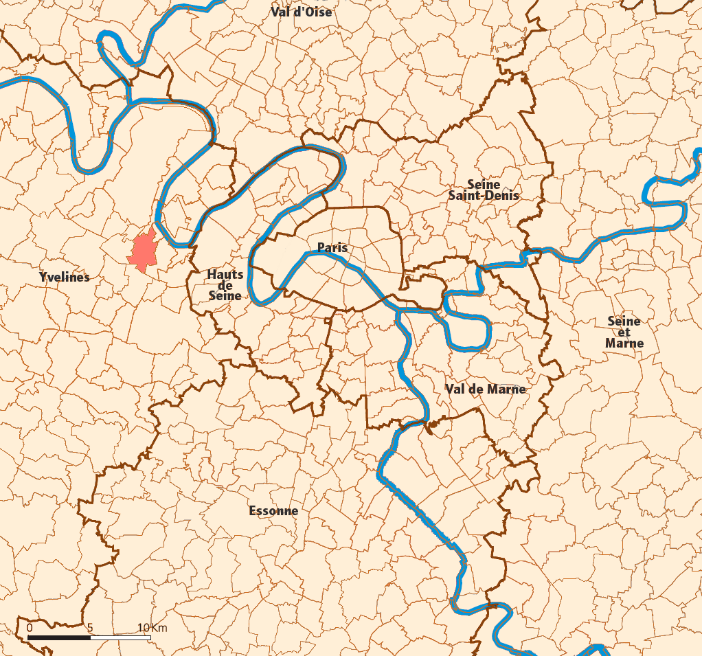 Created map myself.